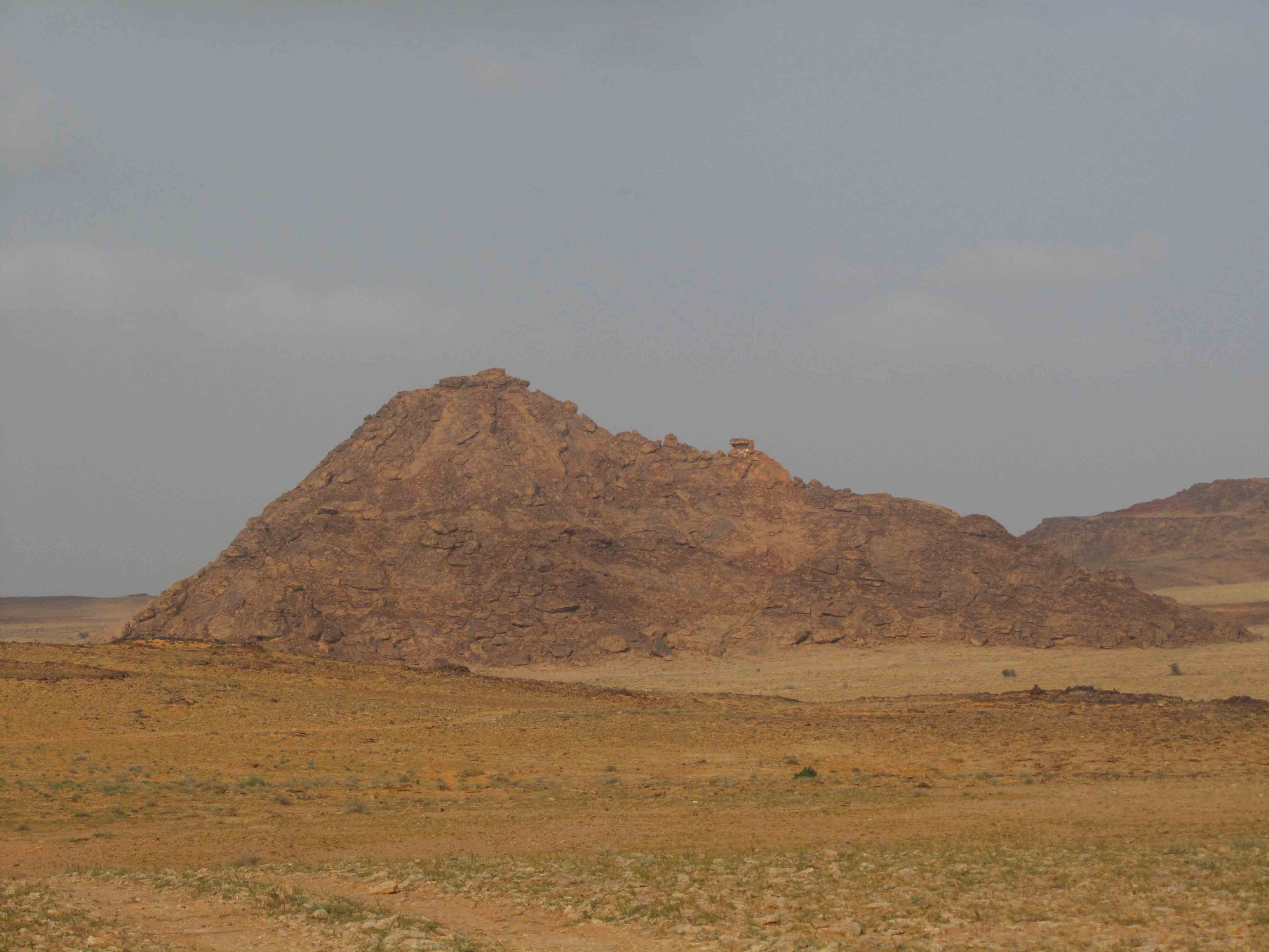 Jildiyyah Mountain, in Saudi Arabia.